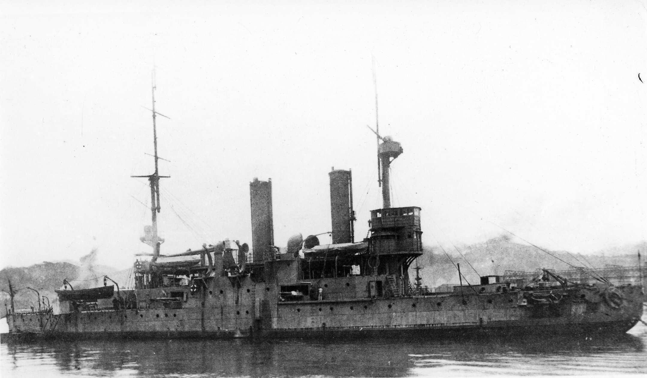 Imperial Japanese icebreaker Misima.